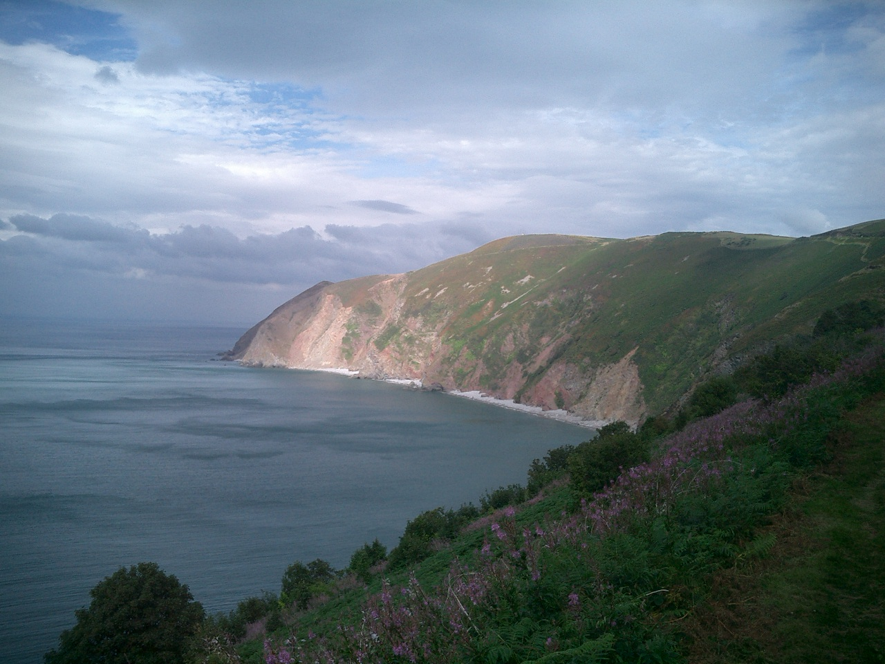 my photo of Foreland point